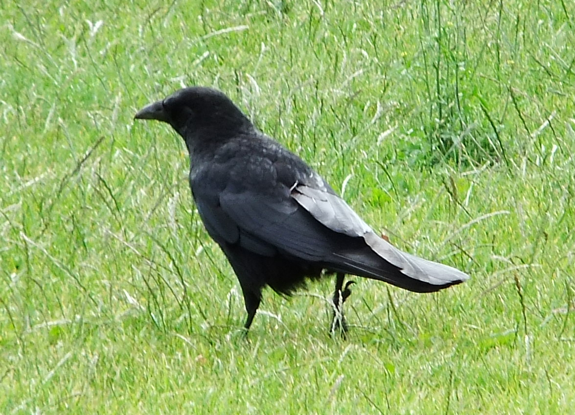 Lincoln, England.